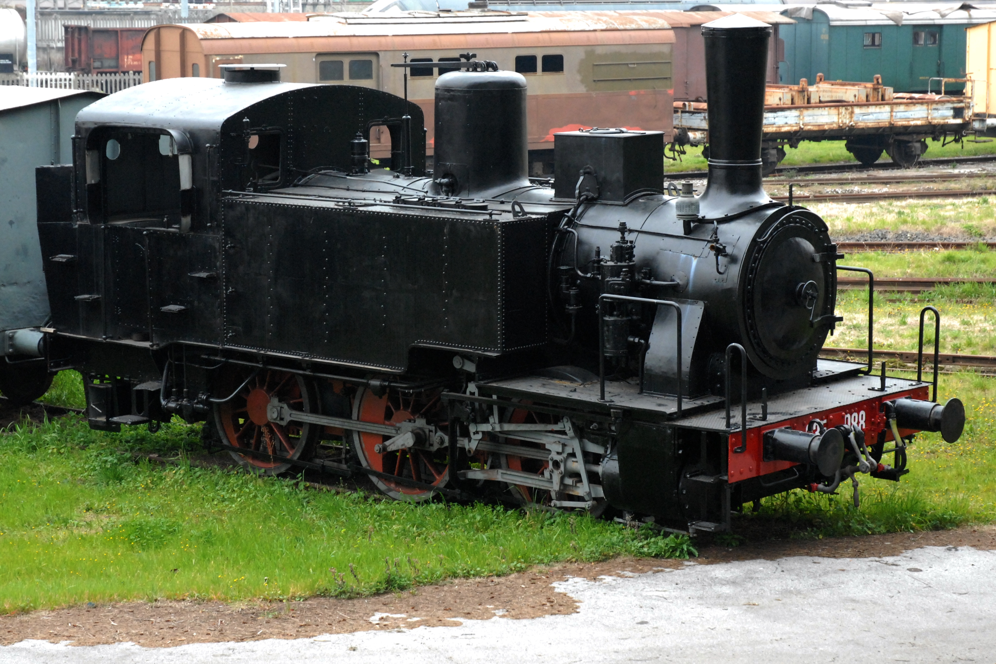 Photos from the FS railway deposit in Pistoia, Italy. FS group 835 unit n. 088